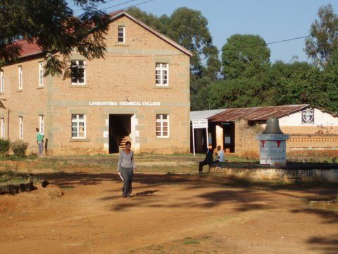 I took this picture on May 22, 2006 on a trip to Malawi.